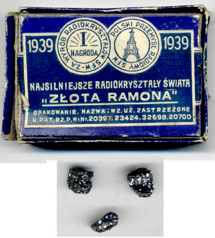 Crystals of galena sold for use in Polish crystal radio receivers probably in the 1930s. They were used in cat's whisker detectors, an antique electronic component used in crystal radios, which remained in use in Eastern Europe into the 1950s. In a cat's whisker detector, the face of the crystal was touched by a fine wire, forming a point-contact semiconductor diode, which rectified the radio waves in the receiver to extract the audio signal from the radio frequency carrier wave. The crystals varied in their effectiveness, so several crystals often had to be tried to find a sensitive one. The text on the box says: "'Ramona' Gold" "World's most powerful radio crystal" "Polish Radio Industry S.F.W."